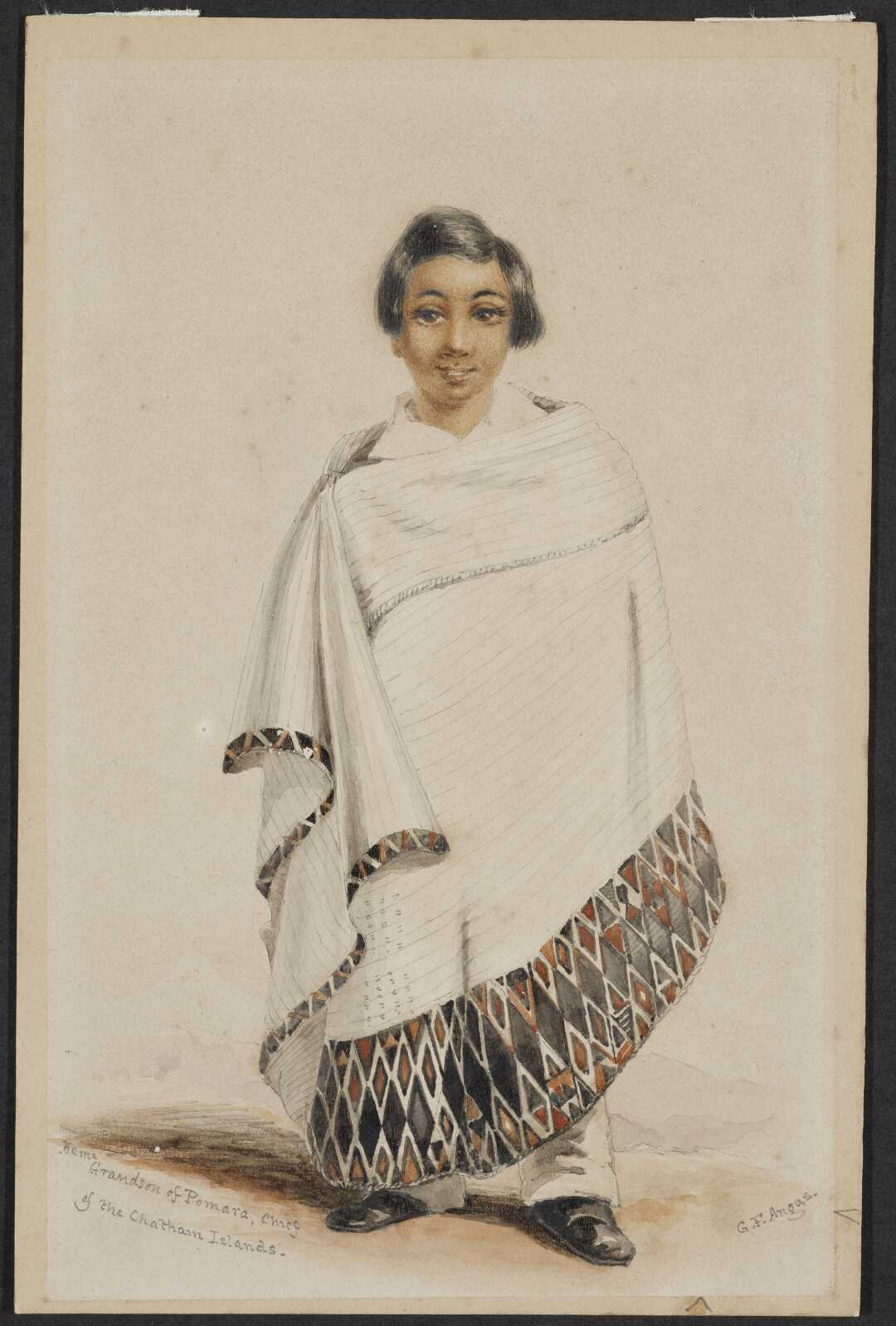 'Hemi Pomara' (1844 - 1846) by George French Angas Alternative title: 'Wiremu Piti Pomare' Pencil and watercolour on card, 171 x 113 mm.